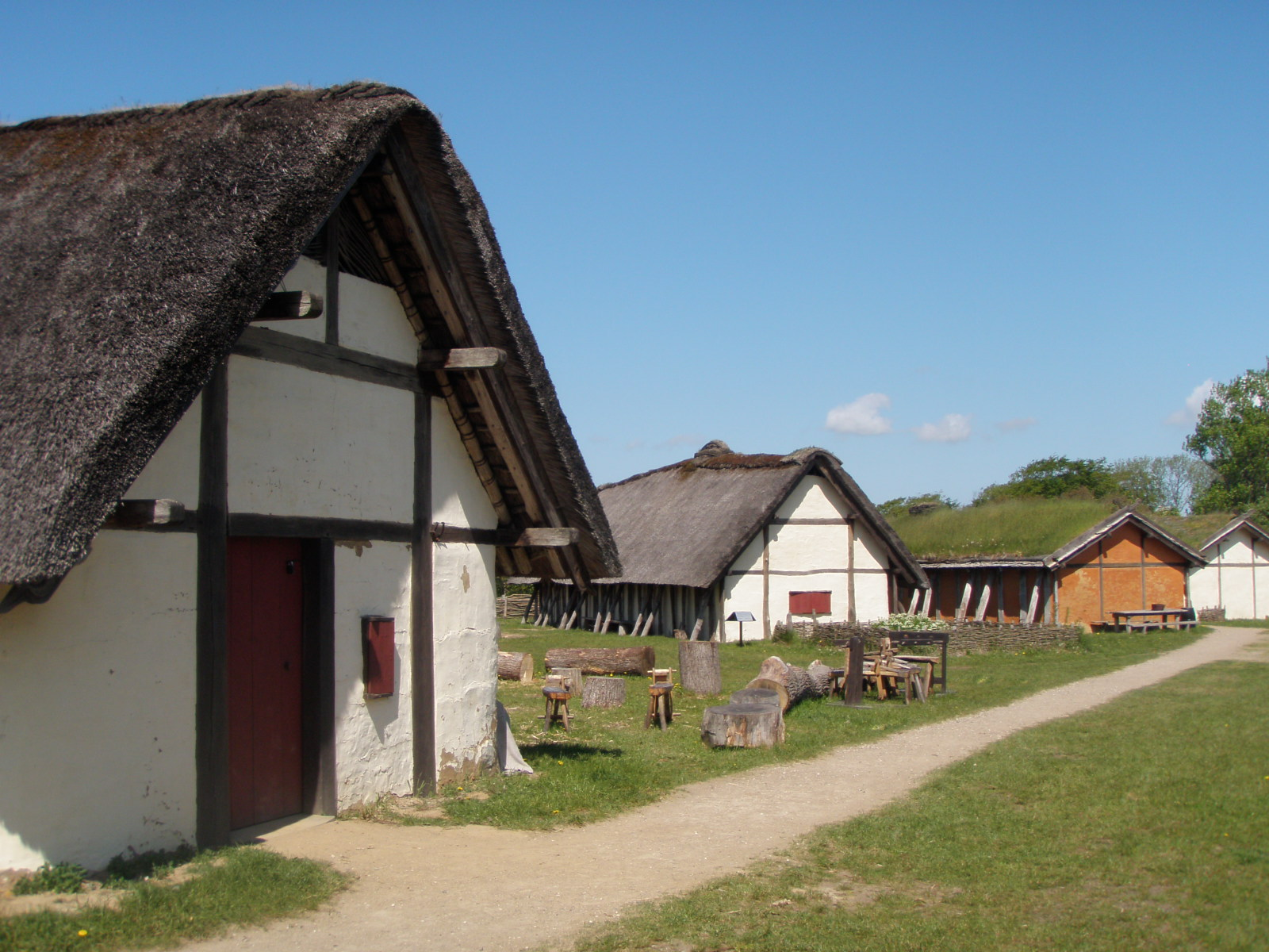 Ribe Viking Centre tries to reconstruct the city of Ribe's oldest history of buildings and the like from the city's oldest three-four first centuries. In the 1300 years old city came during the Viking Age many seasonal craftsmen and merchants from nearby and distant, when it was common to live in tents, although solid buildings also existed. However, there was a fixed place of tent city grew each year. During the late Viking Age, the city became increasingly built permanent and Medieval Ribe occurred.